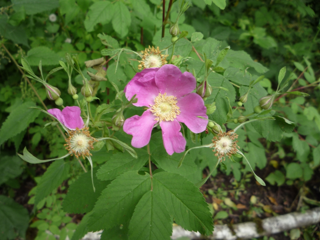 Rosa nutkana, flowers and buds, with diagnostic long thin sepals, constricted in the middle. Photographed in Olympic National Park, Washington State, USA.